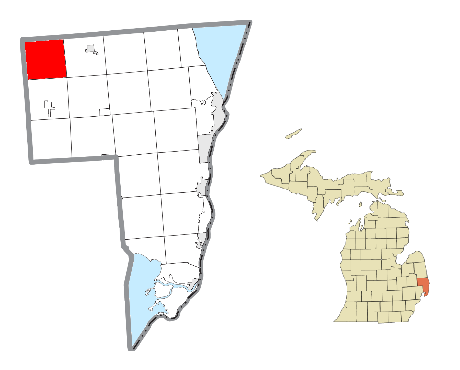 Lynn Township, MI